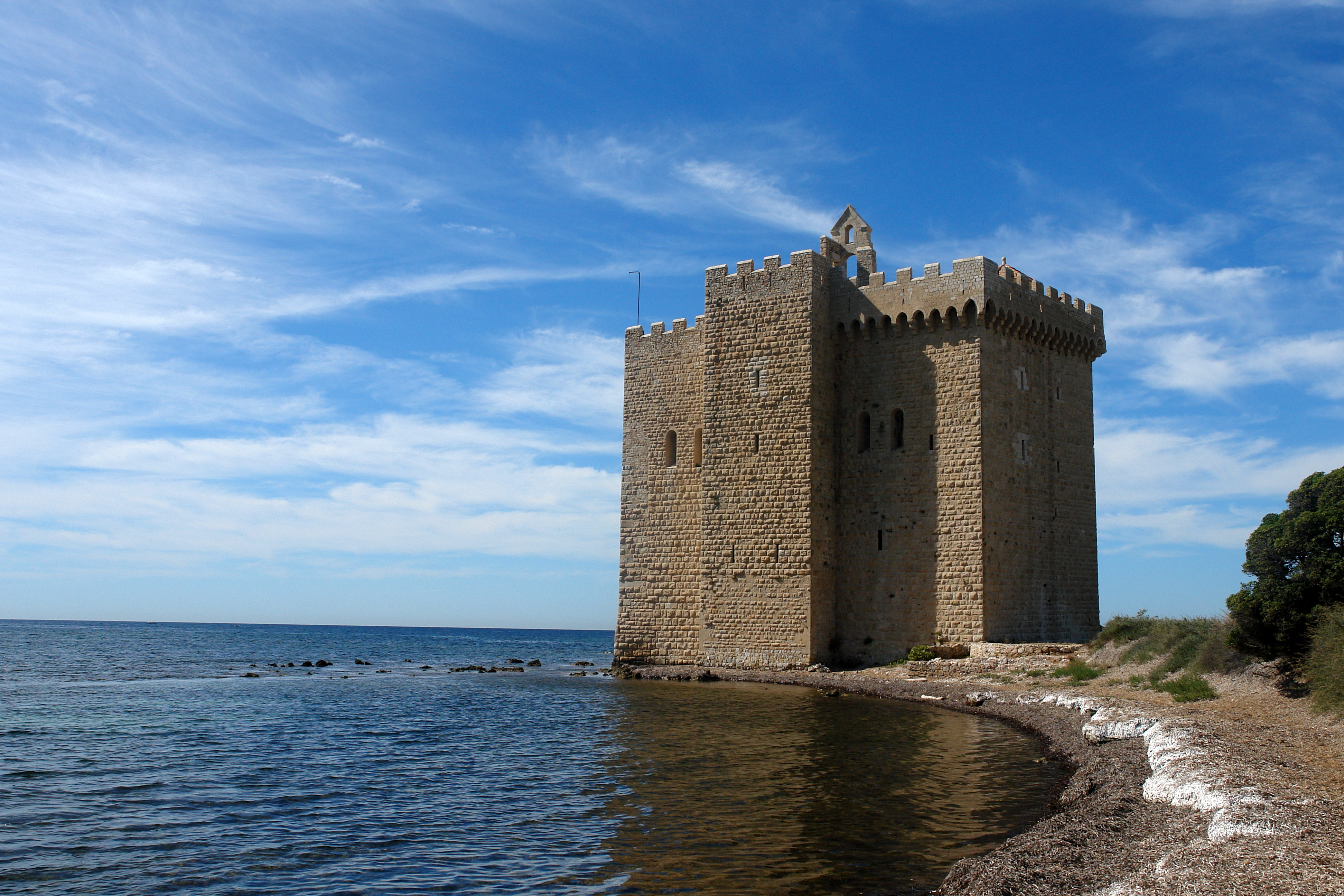 Fortified monastery of Abbey Lérins - Cannes Detail of the Cloister - Fortified monastery of Abbey Lérins - Cannes